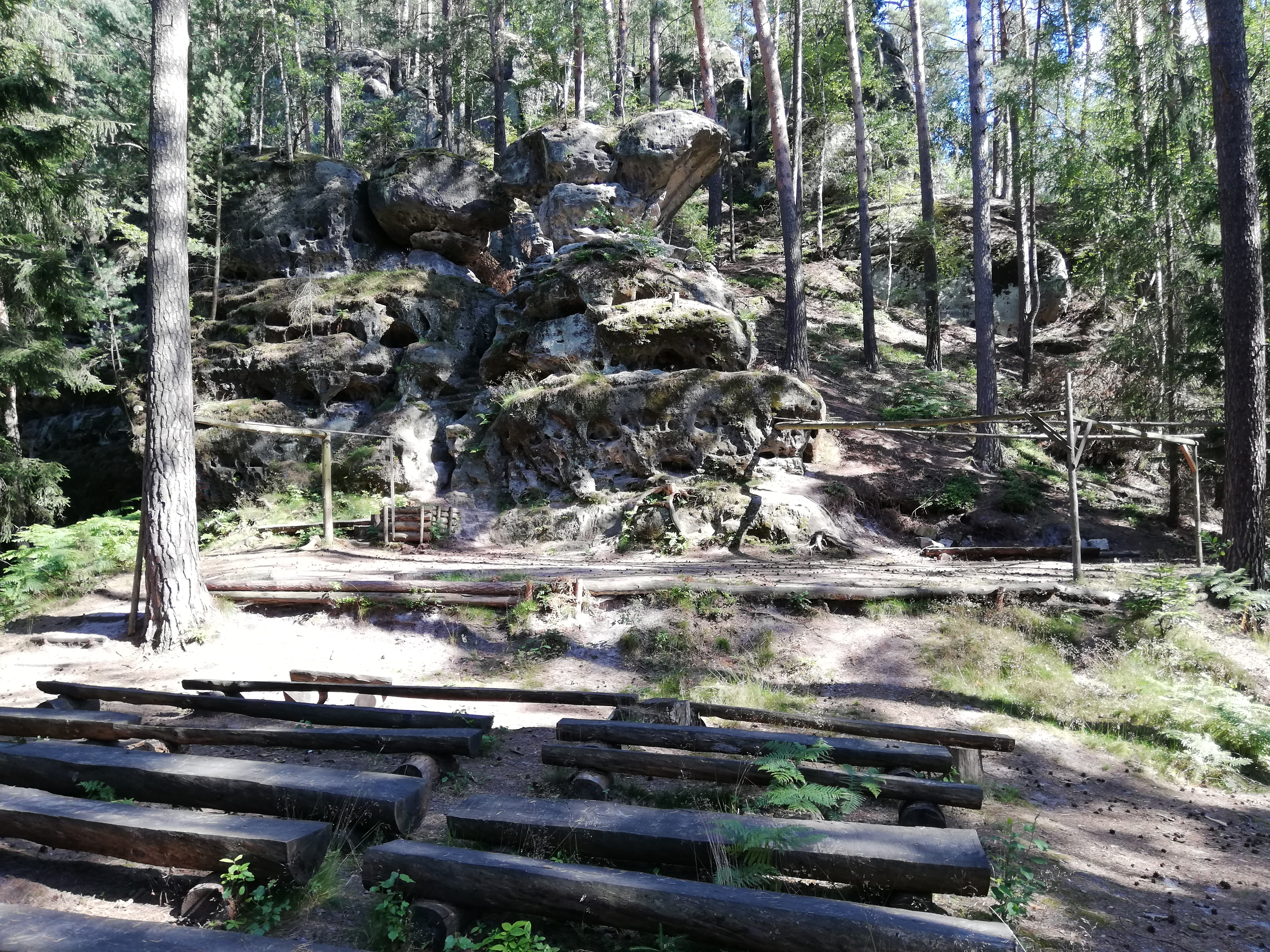 The Forest Theater near Srbská Kamenice is located in the Děčín district in the Ústí nad Labem Region (at an altitude of about 230 m over the sea level) above Srbská Kamenice on a hill above the Kamenice River.